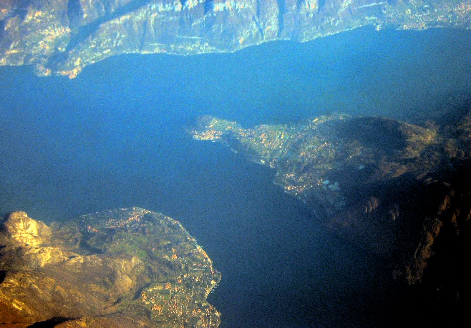 Aerial view of Lake Como and arm of the lecco towards Lecco, Italy (In this picture the upper left part of Lake Como is called Lago di Lecco. The town on the peninsula is Bellagio).